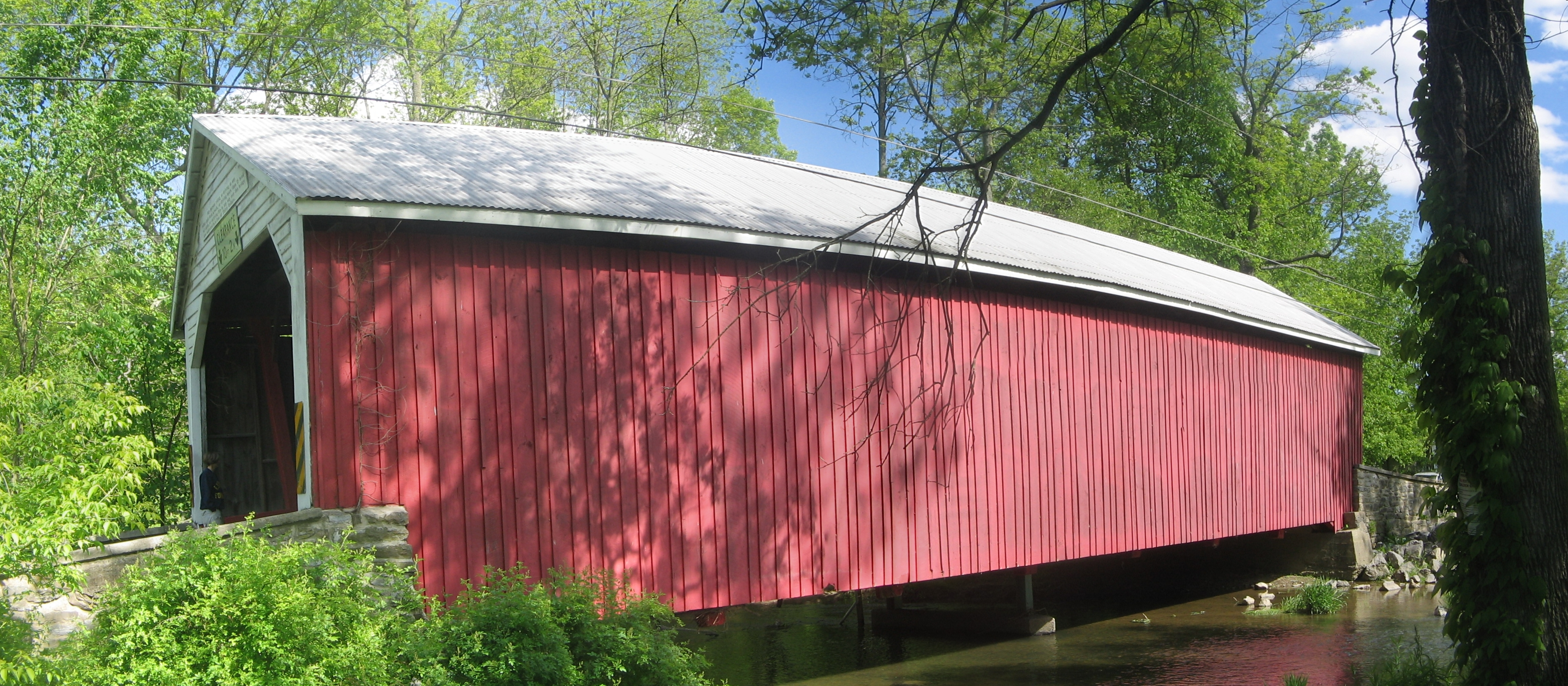 Hassenplug Covered Bridge over Buffalo Creek in the borough of Mifflinburg, Union County, Pennsylvania, USA. Bridge built 1825. On the US National Register of Historic Places. A Burr arch truss bridge.